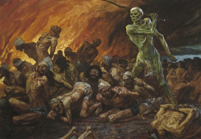 From Psalms, Like sheep they are laid in the grave; death shall feed on them; and the upright shall have dominion over them in the morning; and their beauty shall consume in the grave from their dwelling.